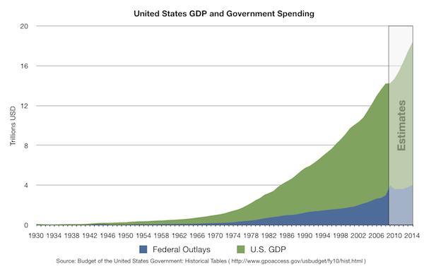 This is just like File:US Federal Outlay and GDP linear graph.svg but a PNG for use in infoboxes and stuff, because Wikipedia's SVG scaler chokes on all the text labels when rendered at 200px wide.